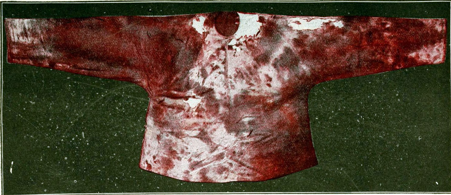 Photograph of the blood-stained undergarment of Franz-Xavier Nies, a Catholic missionary killed in the Juye incident